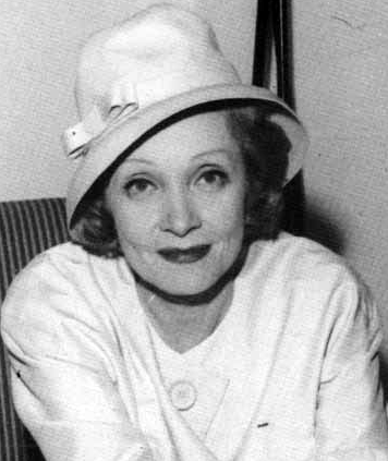 Marlene Dietrich in Jerusalem during a concert tour of Israel, June 1960.